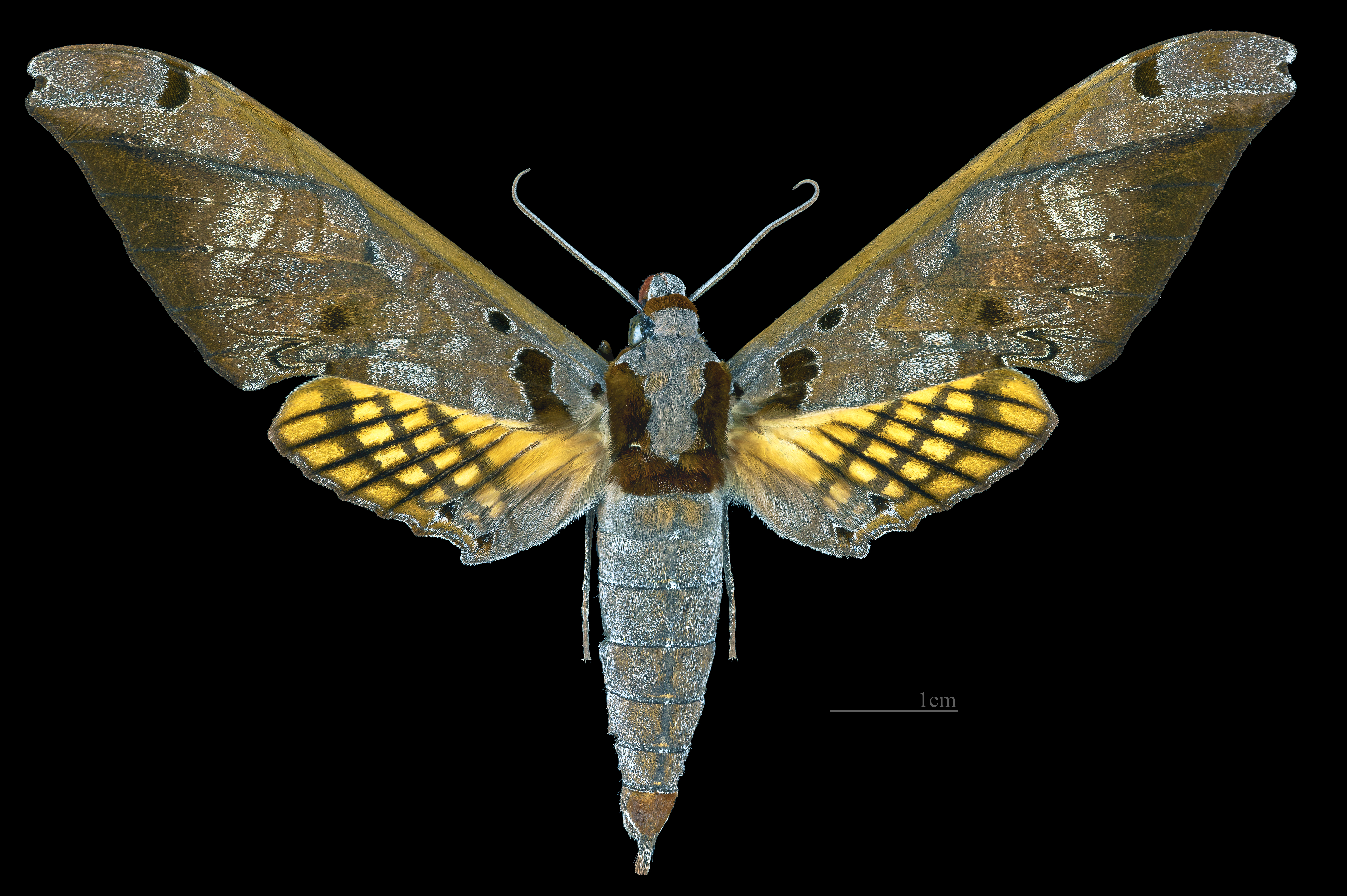 Adhemarius tigrina - Dorsal side Collection of the Mathematician Laurent Schwartz